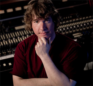 Jono Grant Composer photo